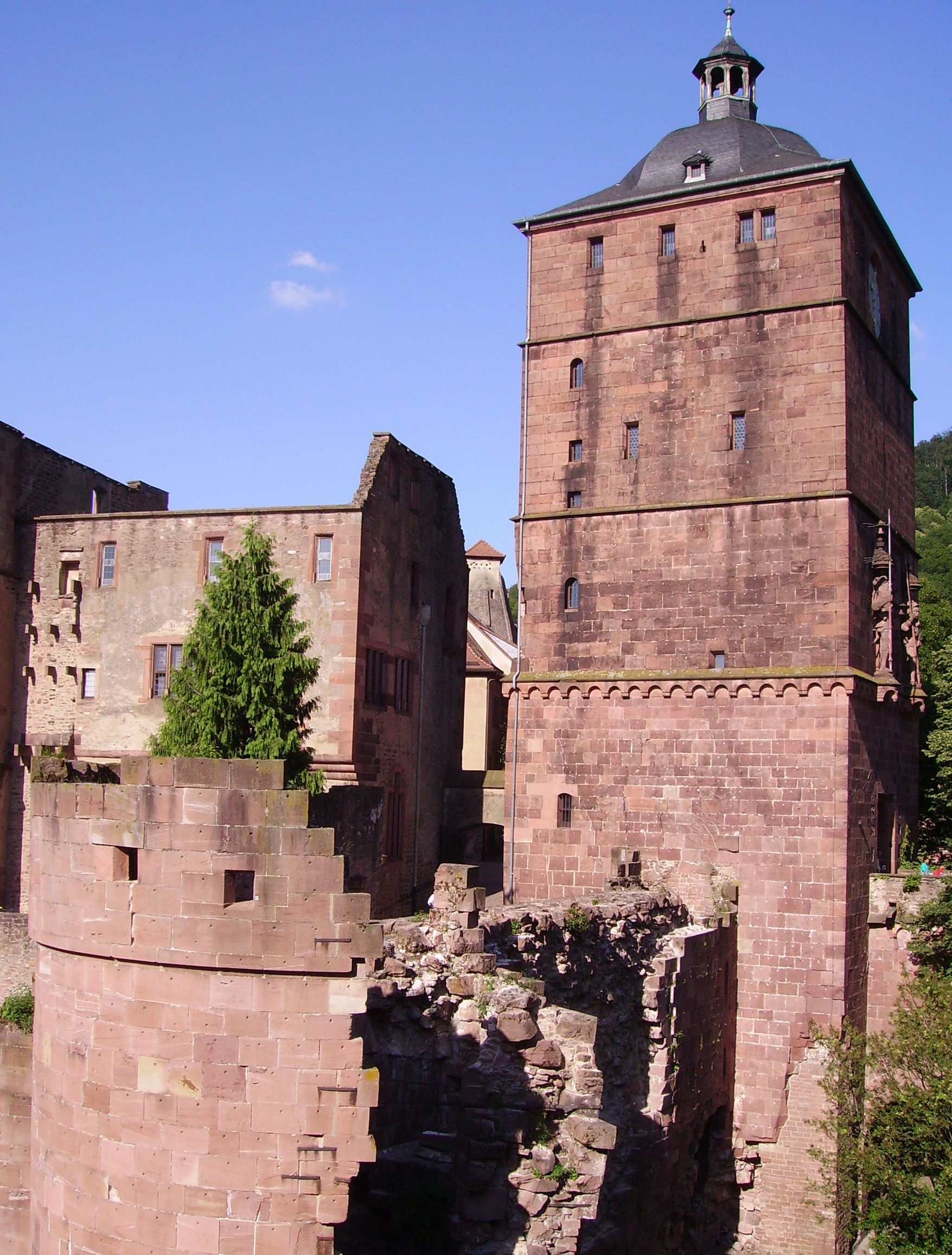 part of Heidelberg castle (Heidelberger Schloss)